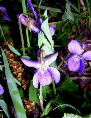 Viola hirta Author : Augustin Roche Source : [1]